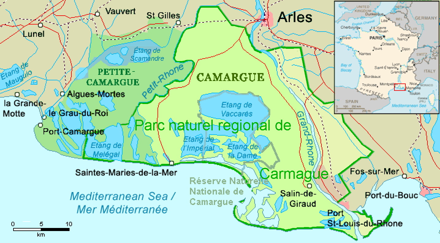 Map of the Camargue region, southern France